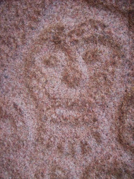 The church in Brastad, Sweden. Detail on runic inscription Bo NIYR;1